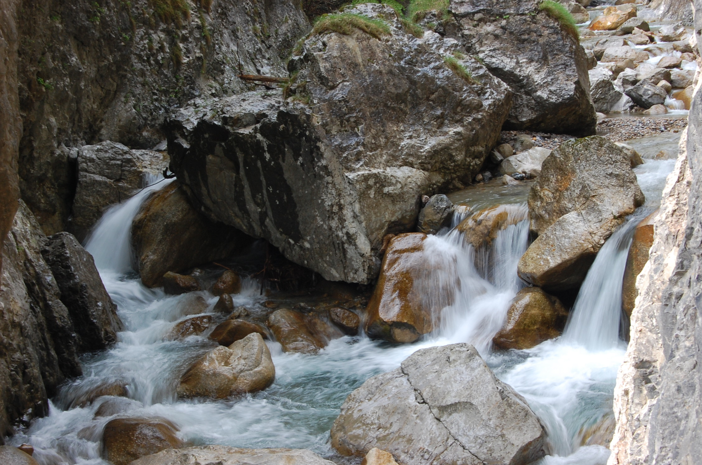 Mountain Torrent in Dovžanova soteska (Tržič, Slovenia, spring 2008)